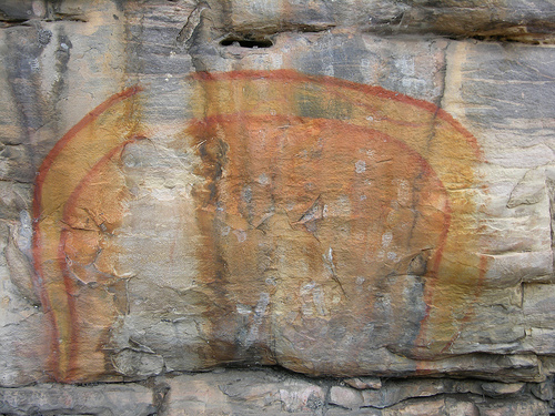 Australian Aboriginal rock painting of "The Rainbow Serpent". Photo by: Mark O'Neil